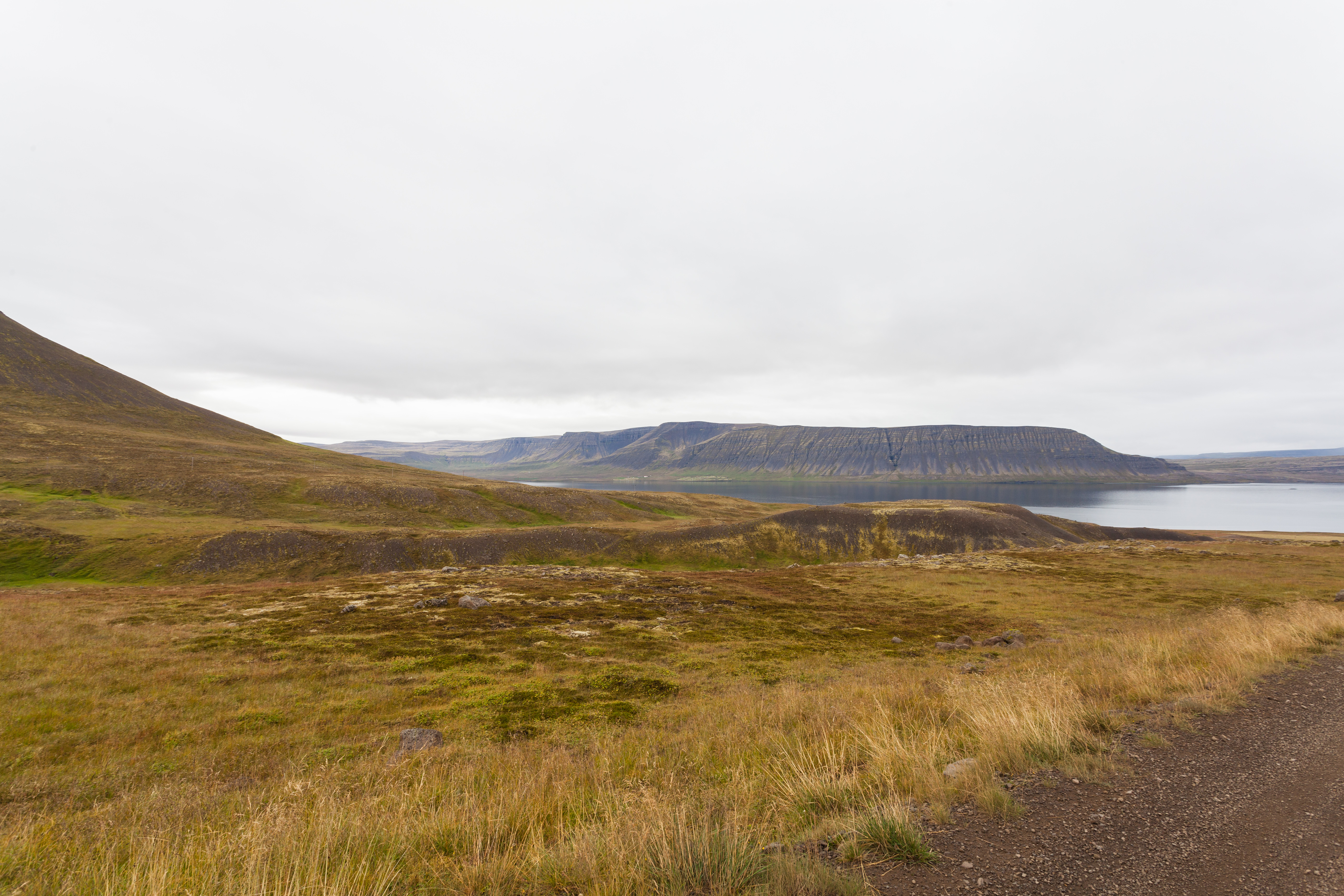 Arnarfjörður, Vestfirðir, Iceland.